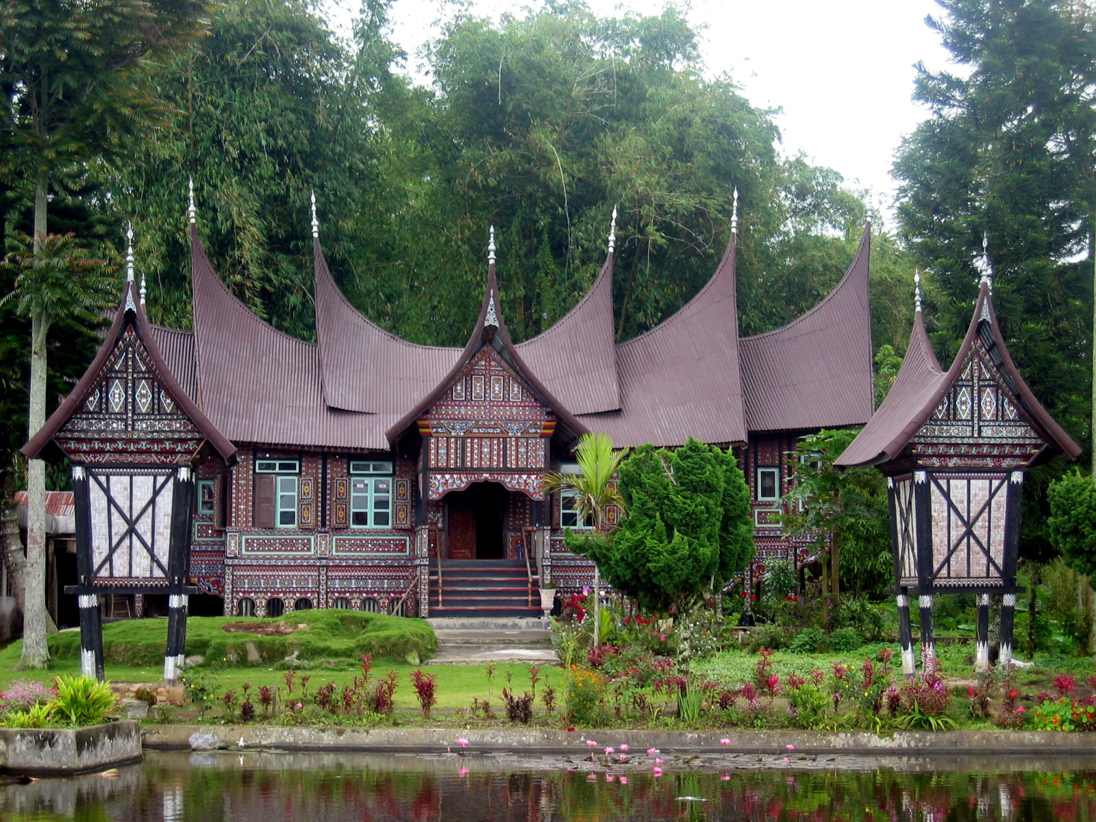 Photo taken by MichaelJLowe of a Rumah Gadang in the Pandai Sikek village of West Sumatra, Indonesia